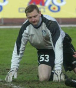 Platon Zakharchuk in action for FC Shinnik